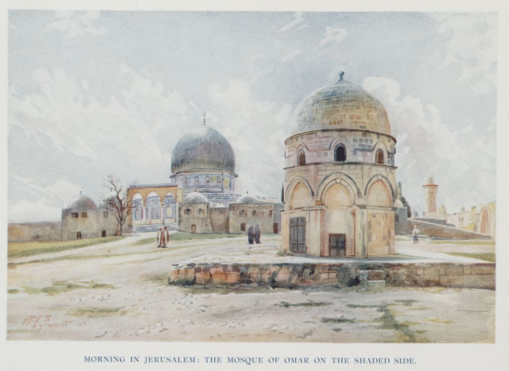 Mosques on Temple Mount. Painting.